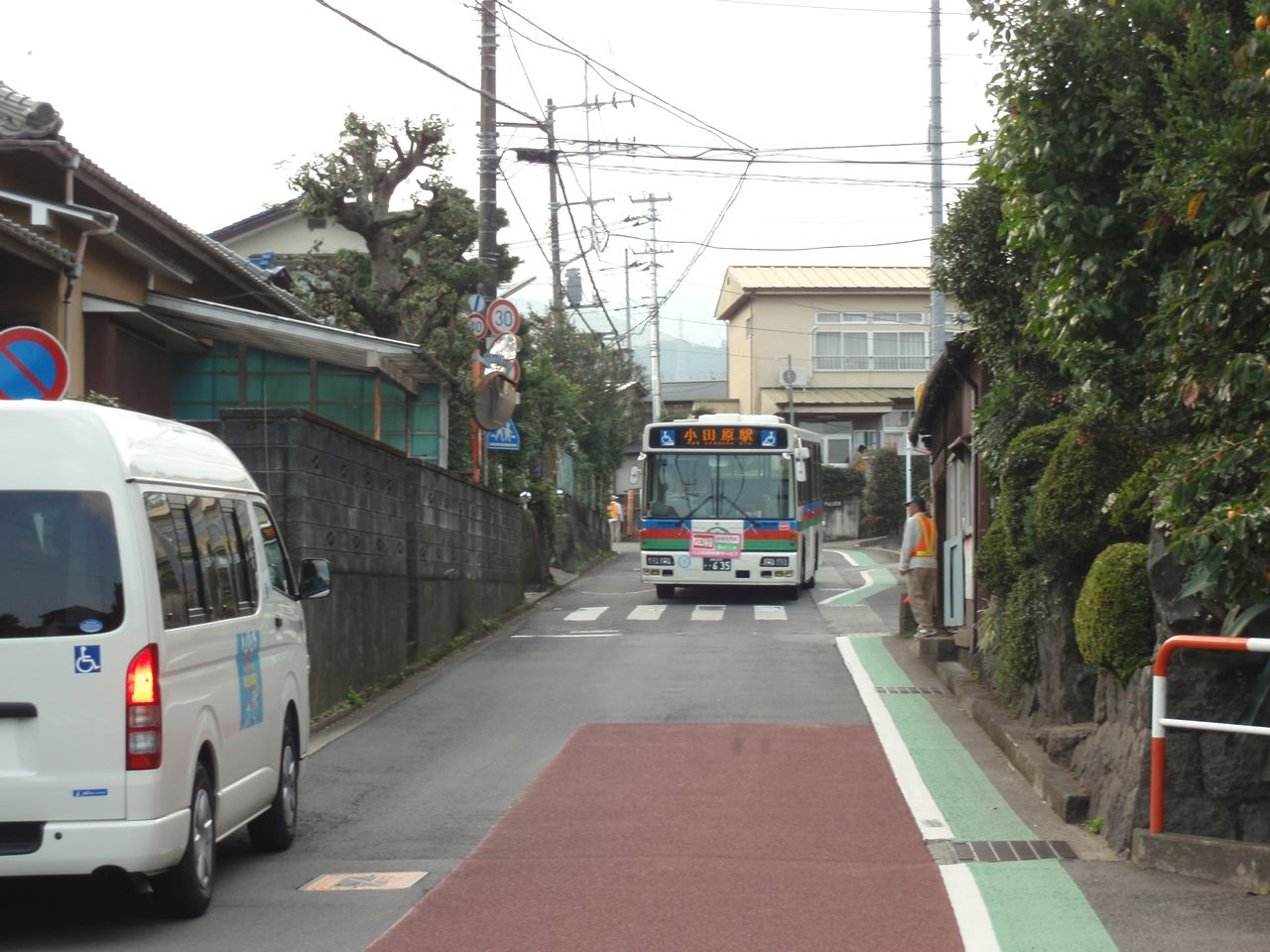 Izuhakone Bus that runs in the vicinity of Kuno, Odawara City.